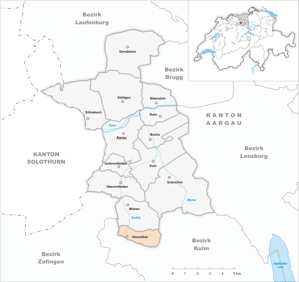 Municipality Hirschthal